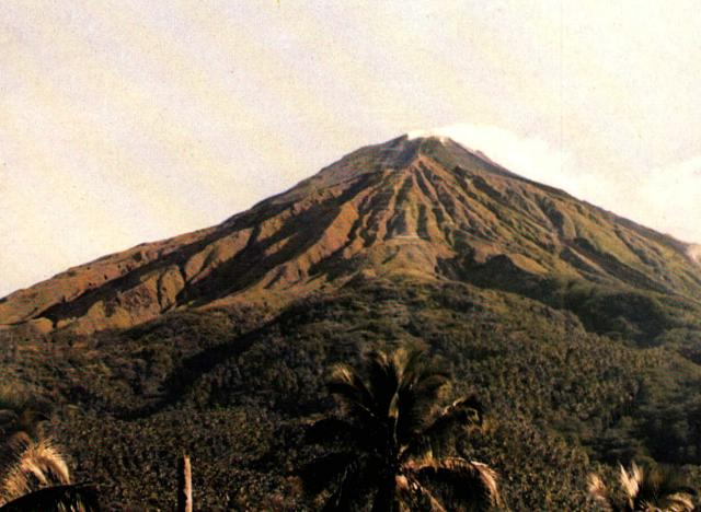 Karangetang (Api Siau) volcano rises above the Pengamatan Maralawa volcano observation post of the Volcanological Survey of Indonesia near the village of Salili on the southern flank. Karangetang is one of Indonesia's most active volcanoes. Twentieth-century eruptions have included frequent explosive activity that is sometimes accompanied by pyroclastic flows and lahars. Lava dome growth has occurred in the summit craters; collapse of lava flow fronts has also produced pyroclastic flows.